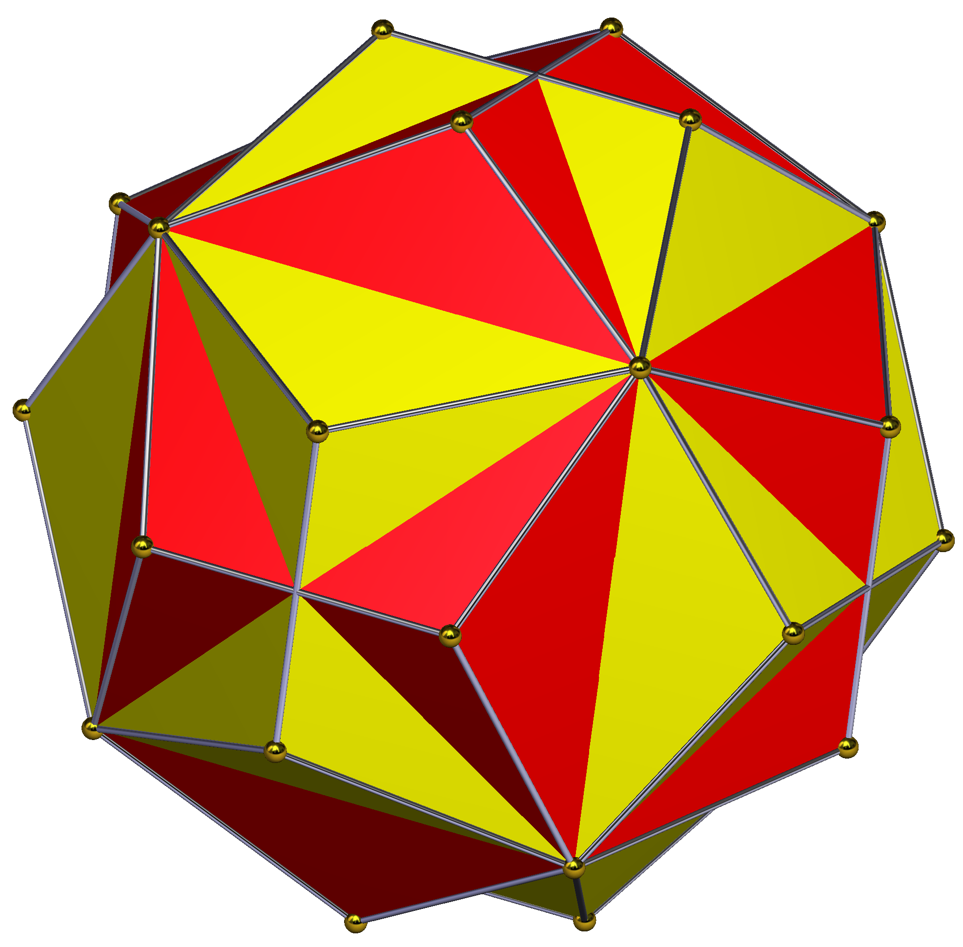 Compound pyritohedron and dual position